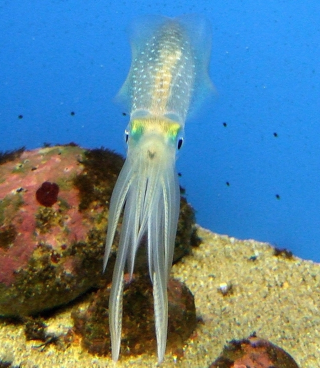 Sepioteuthis lessoniana (Kinosaki Marine World)